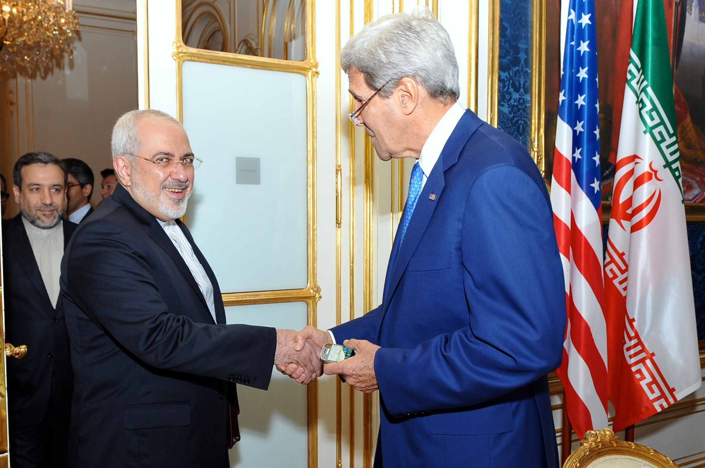 U.S. Secretary of State John Kerry shakes hands with Iranian Foreign Minister Mohammad Javad Zarif as he arrives at a hotel in Vienna, Austria, on July 14, 2014, for a second day of meetings about the future of his country's nuclear program. [State Department photo/ Public Domain]